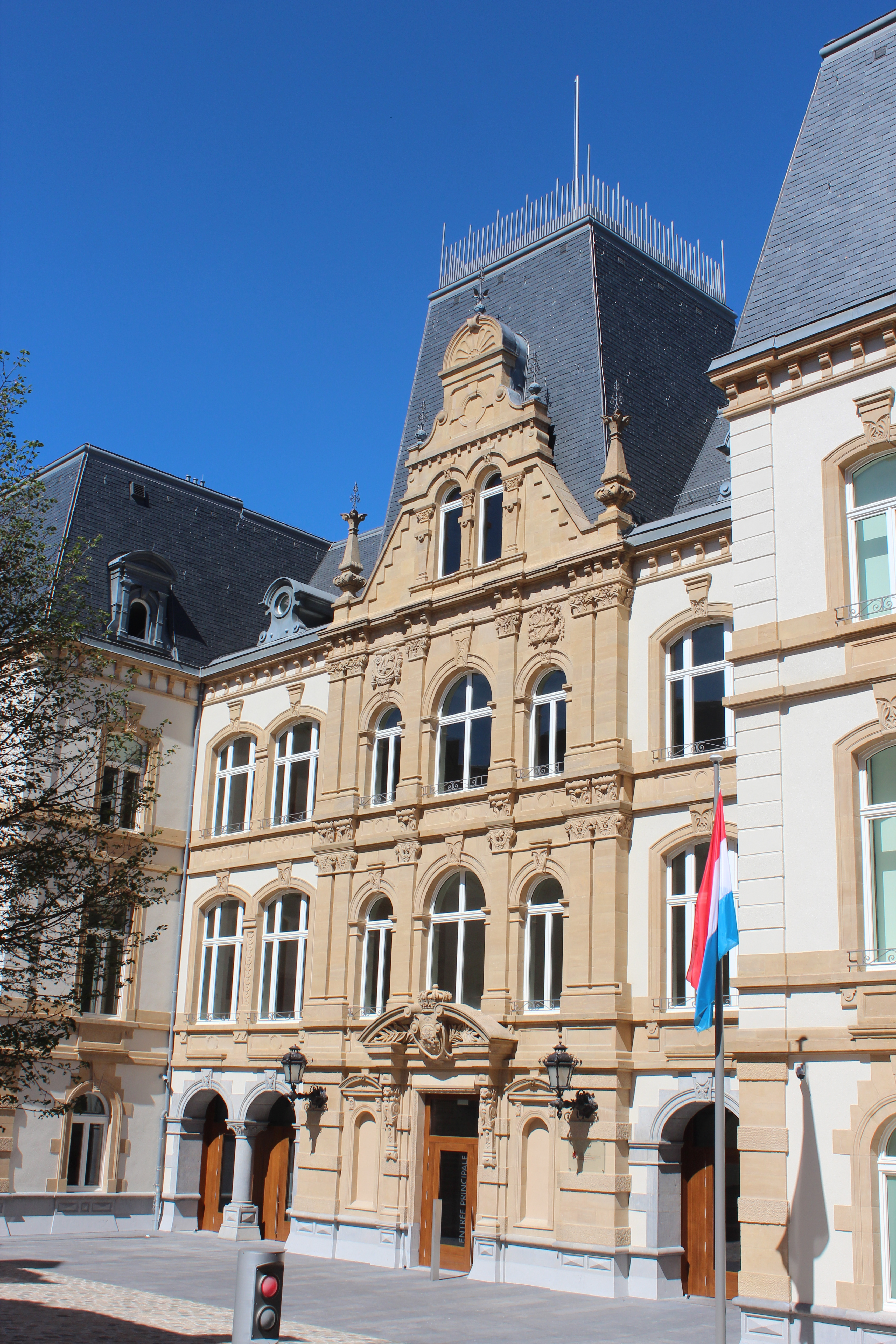 Mansfeld Building (former Palace of Justice, now Ministry of Foreign Affairs) in Luxembourg City